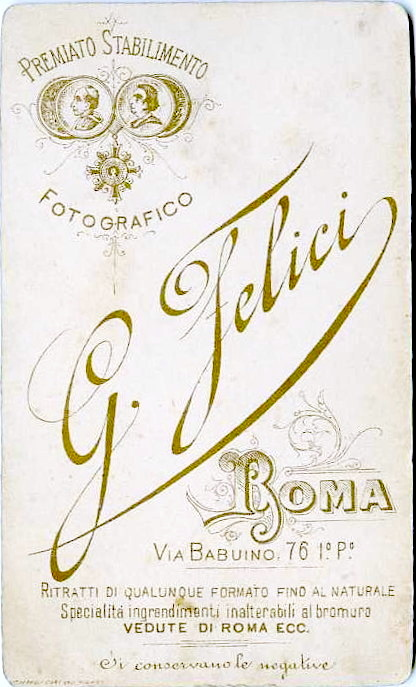 Giuseppe Felici (1839-1923) - Back card trademark.